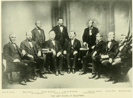 Representative men of Somerville, from the incoportation of the city in 1872 to 1898 p. 28